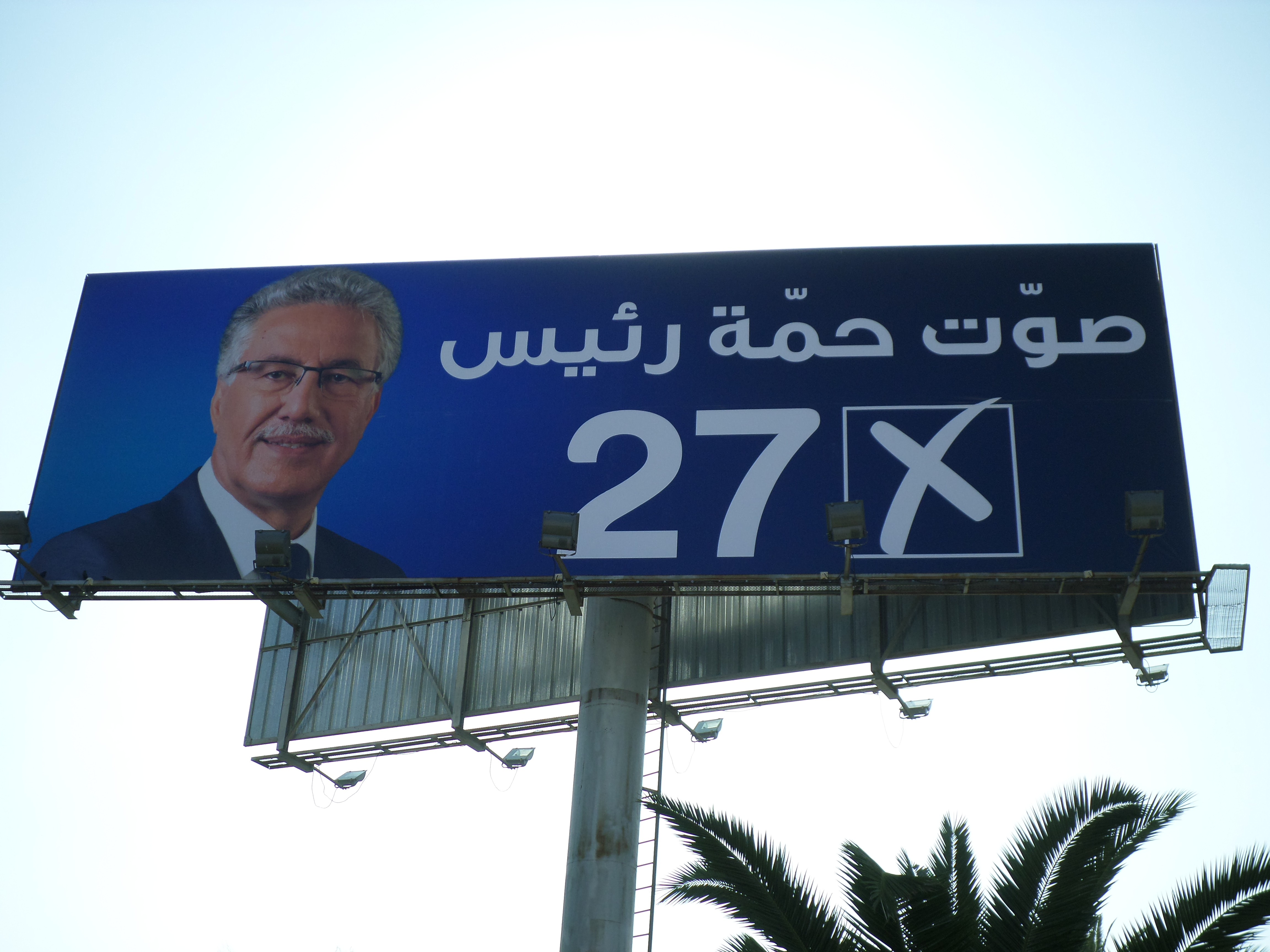 Electoral billboard of Tunisian presidential candidate Hamma Hammami